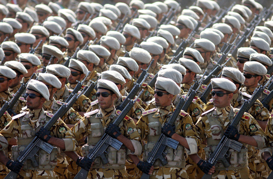 Islamic Republic of Iran Army soldiers marching in front of highest-ranking commanders of Armed Forces of the Islamic Republic of Iran during Sacred Defence Week parade.